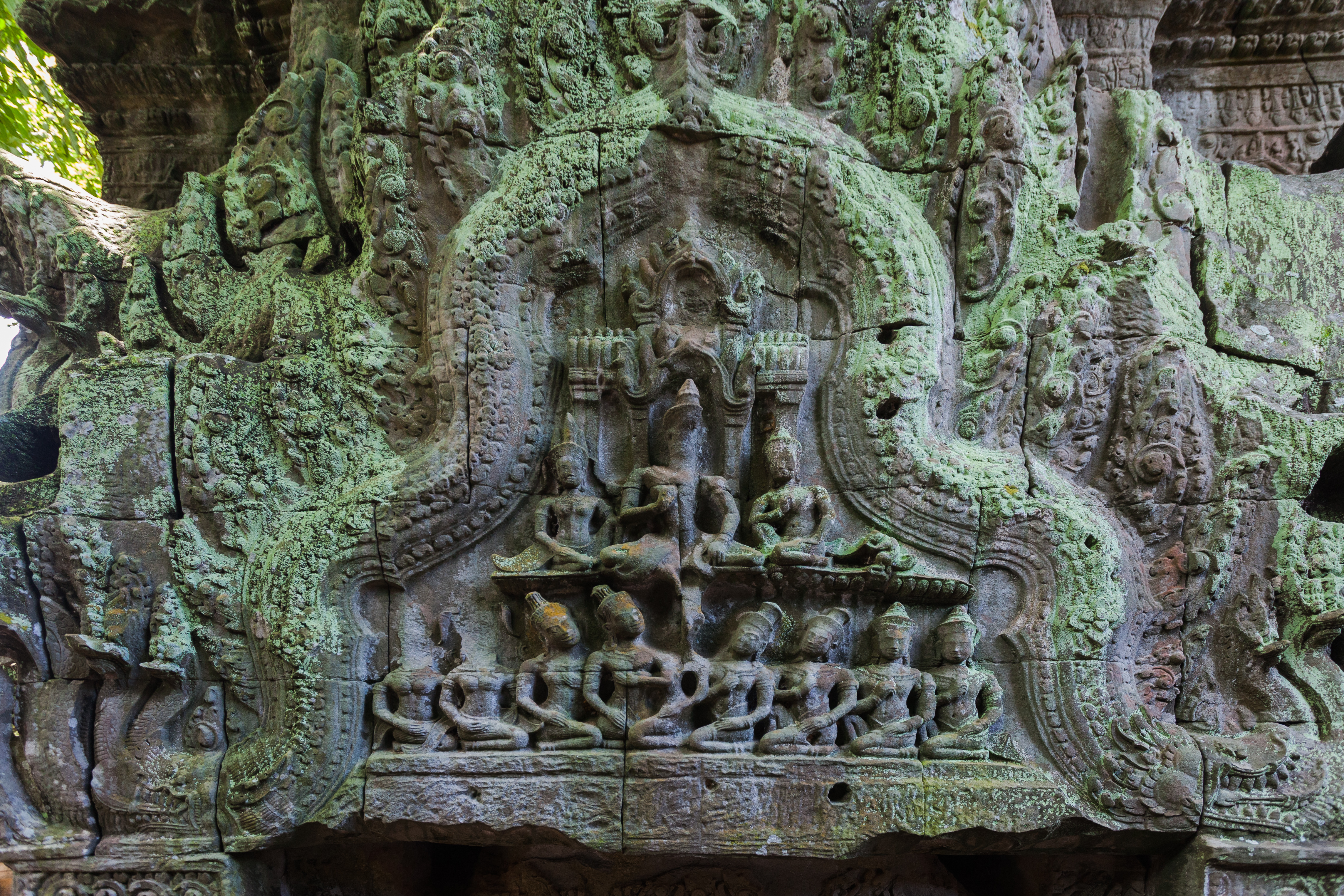 Ta Phrom, Angkor, Cambodia